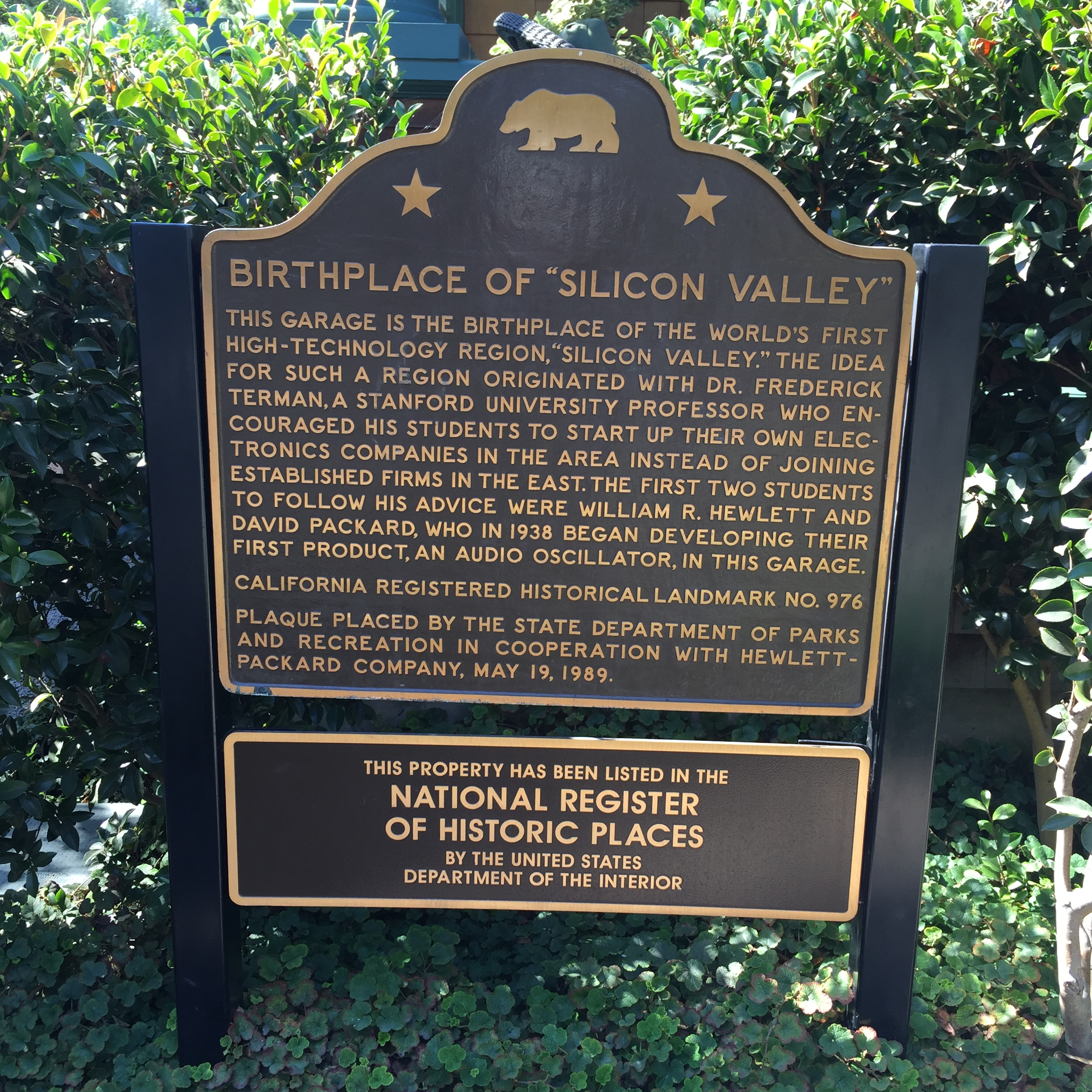 This picture shows a sign describing a garage, which is now recognized as the birthplace of the Silicon Valley, photographed on September 5, 2016 by Zinaida Good. The sign says that William R. Hewlett and David Packard started developing their audio oscillator in this garage in 1938. The garage itself appears in the file "Birthplace-of-Silicon-Valley-Garage-on-5-September-2016.jpg" uploaded on September 5, 2016 as well.